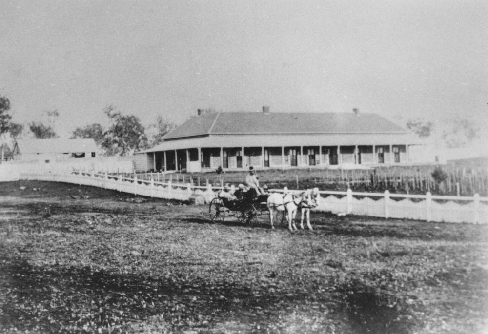 Open carriage outside the Westbrook Station homestead, ca. 1877. Westbrook on the Darling Downs had large mobs of merino sheep by 1888.